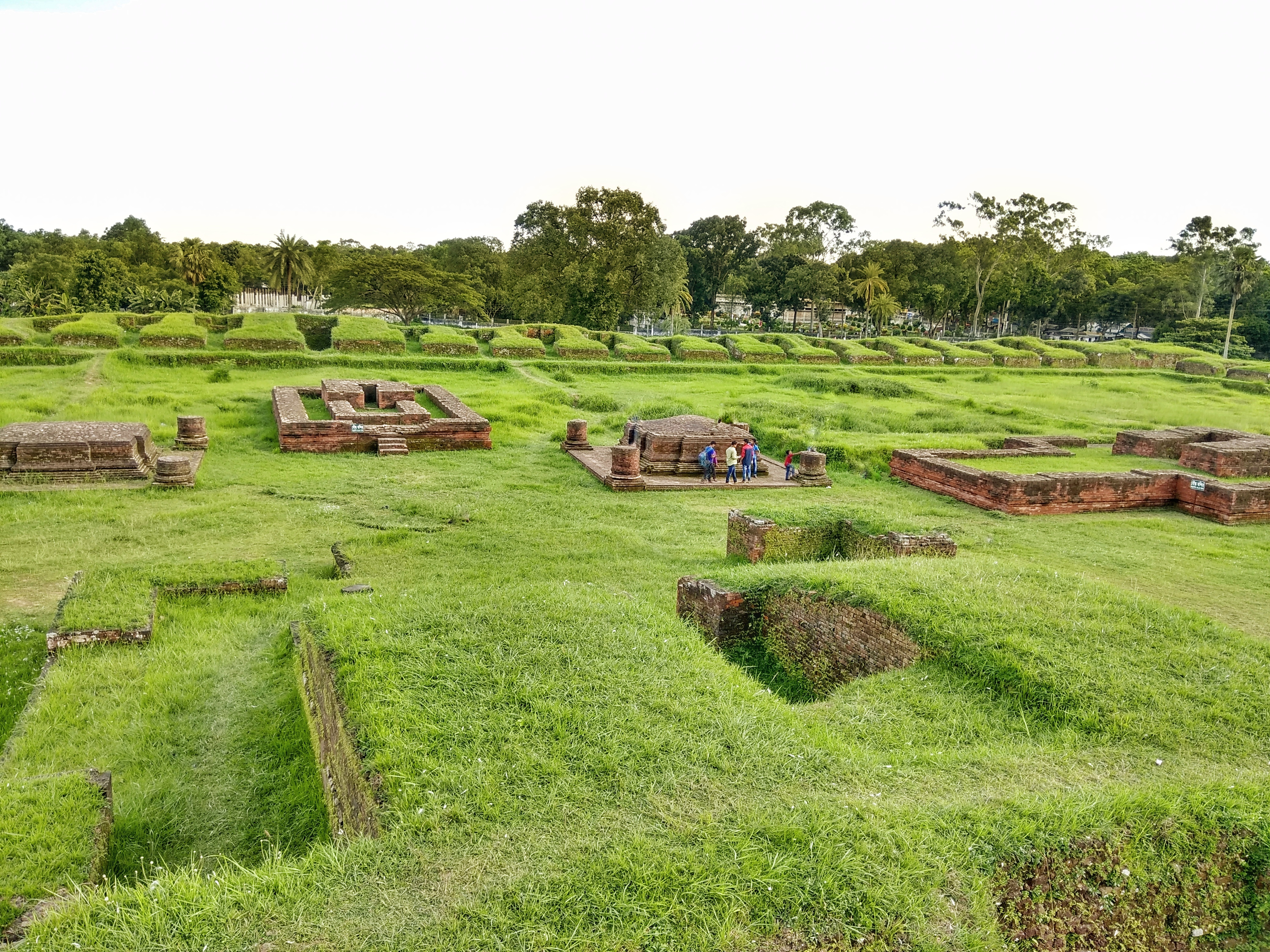 Shalban vihara is an archaeological site in Mainamati, Comilla, Bangladesh. The ruins are in the middle of the Lalmai hills ridge, and these are of a 7th century Paharpur-style Buddhist viharas with about 100 cells for monks. It operated through the 12th century. Excavations have revealed many archaeological artifacts dated to between the 7th and 12th centuries. Most of them are kept in the Mainamati Museum now.